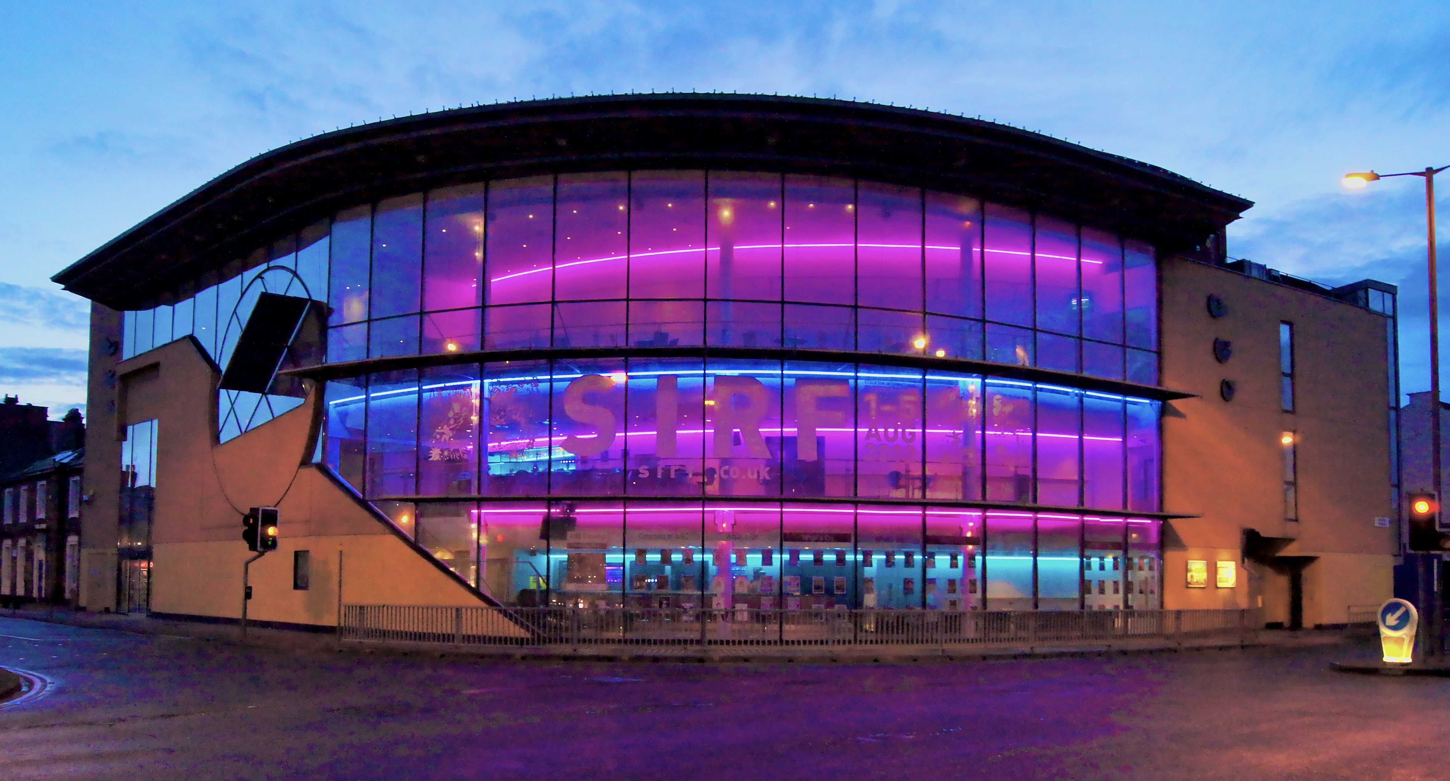 The ARC Theatre & Arts Centre on Dovecot Street, Stockton on Tees at dusk.